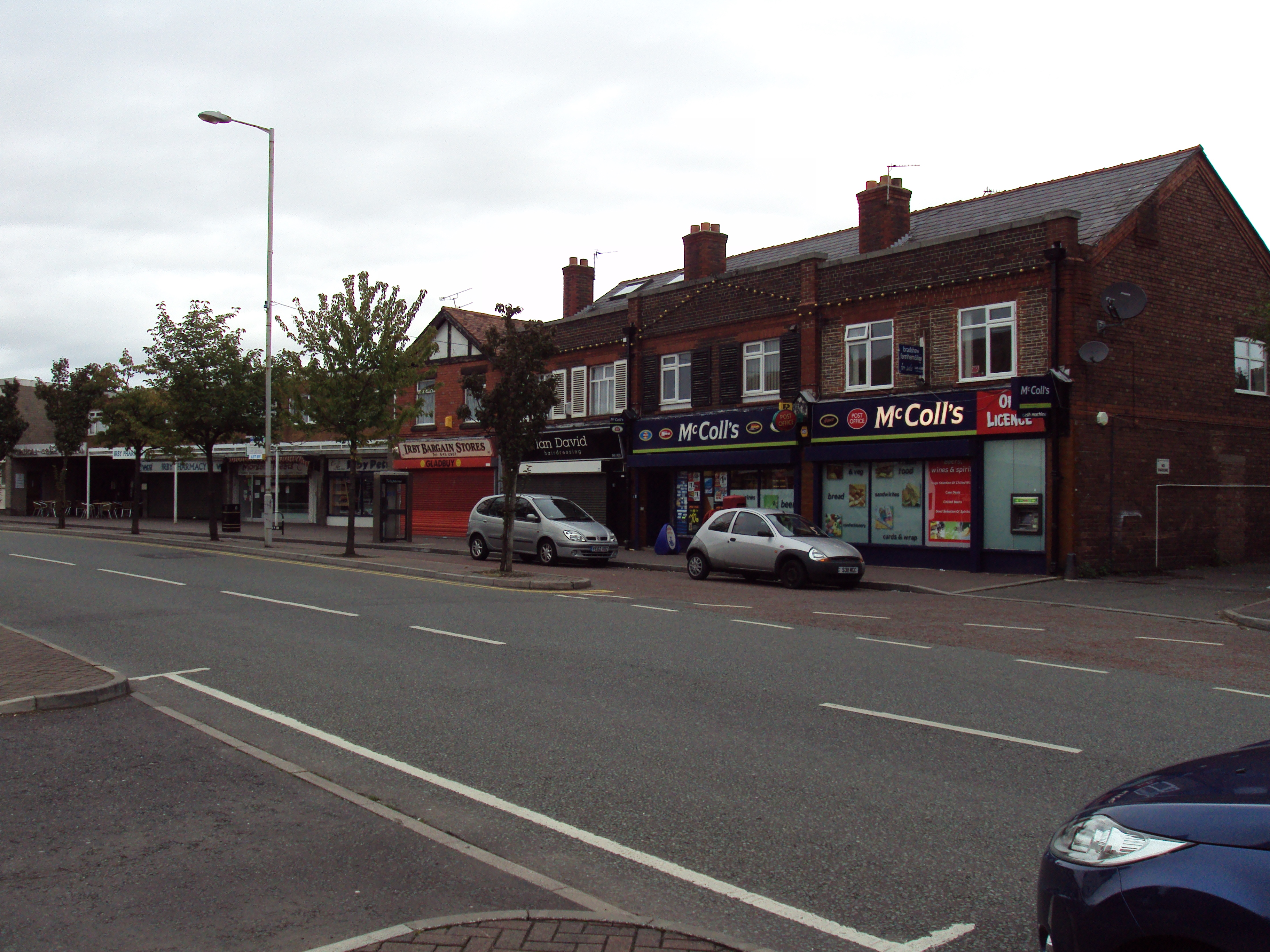 Shops at Thingwall Road, Irby Village, Wirral, England.